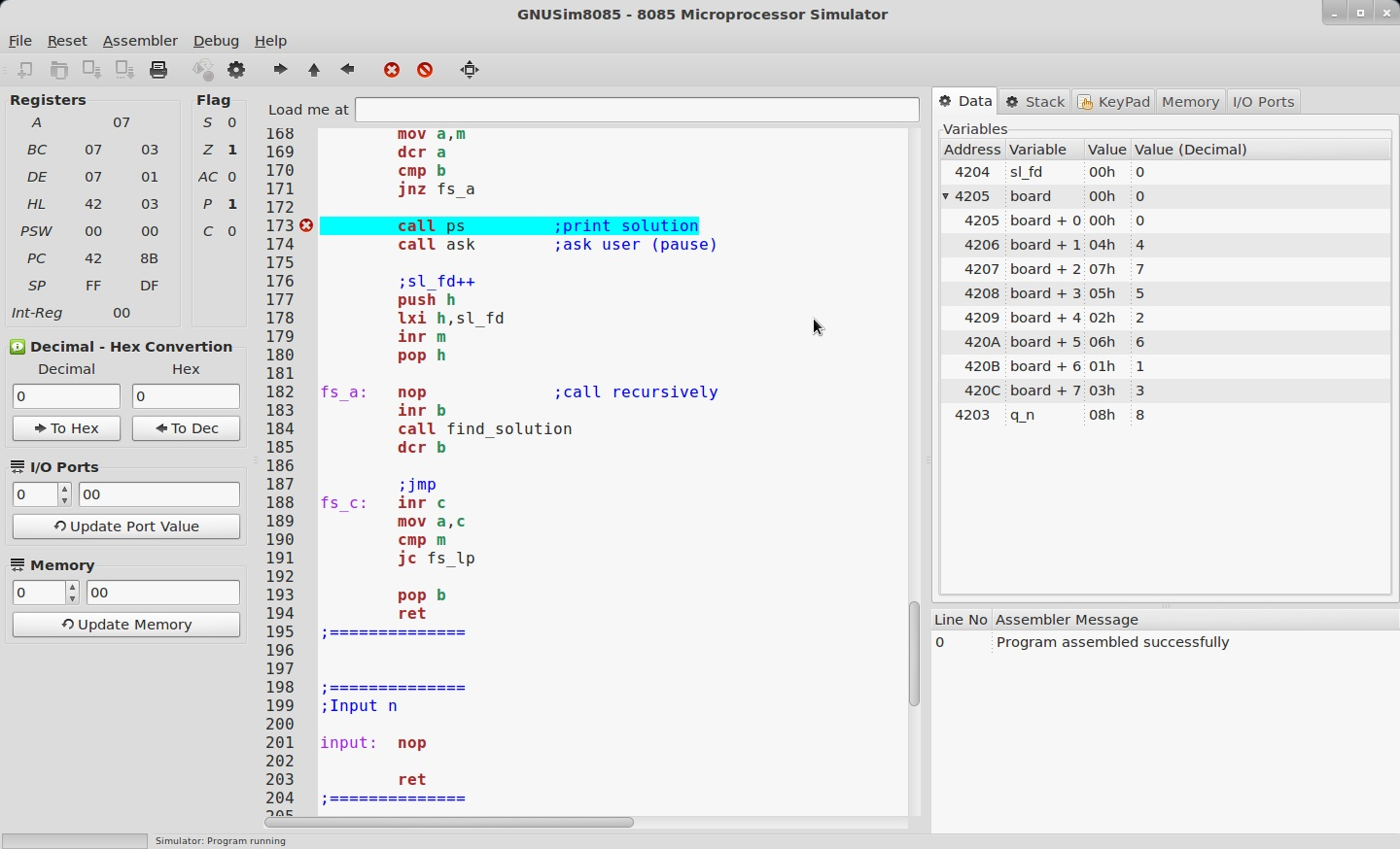 Screenshot of GNUSim8085, my open source project